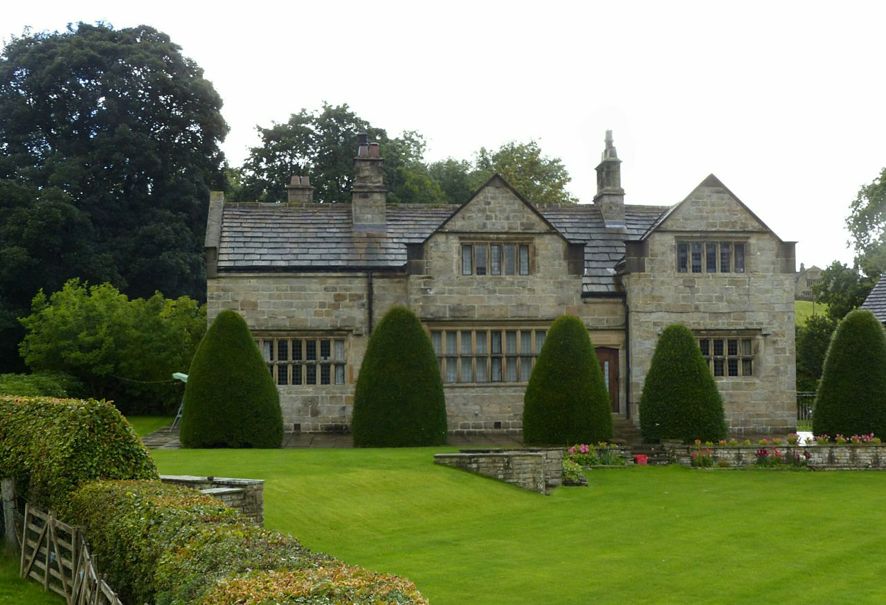 Gouthwaite Hall rebuilt to incorporate part of the 17th century Gouthwaite White Hall which would otherwise have been inundated by Gouthwaite reservoir in 1900. Listed Grade II.